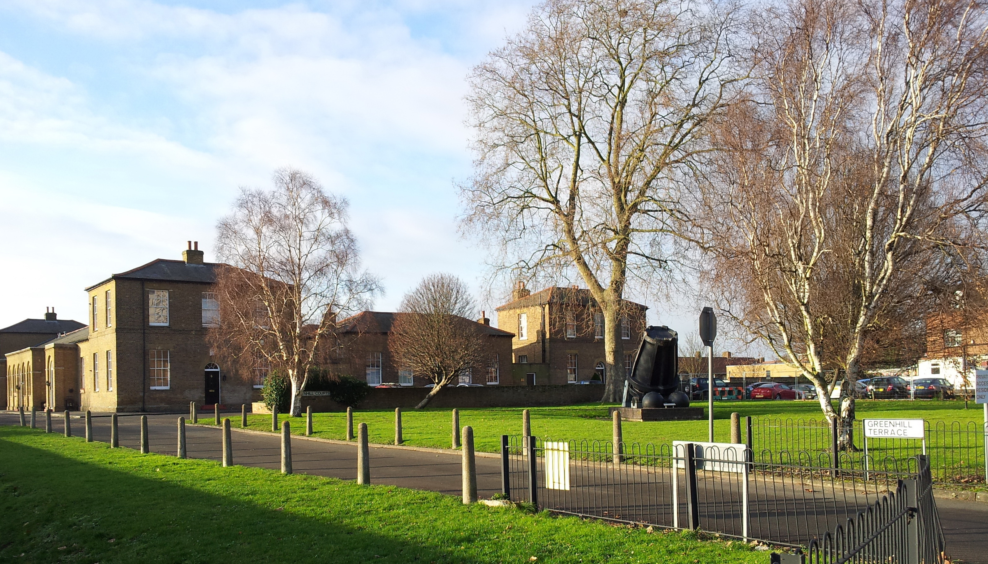 Former Green Hill School, the Royal Artillery’s regimental school on Repository Road - Greenhill Terrace in Woolwich, South East London. The cannon is Mallet's Mortar, a very large mortar of which only two were built. It is on loan from the Royal Armouries.